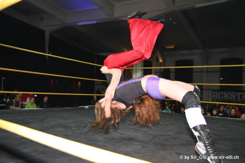 Britani Knight vs. Amy Cooper at Swiss Championship Wrestling's Winter Heat 2010